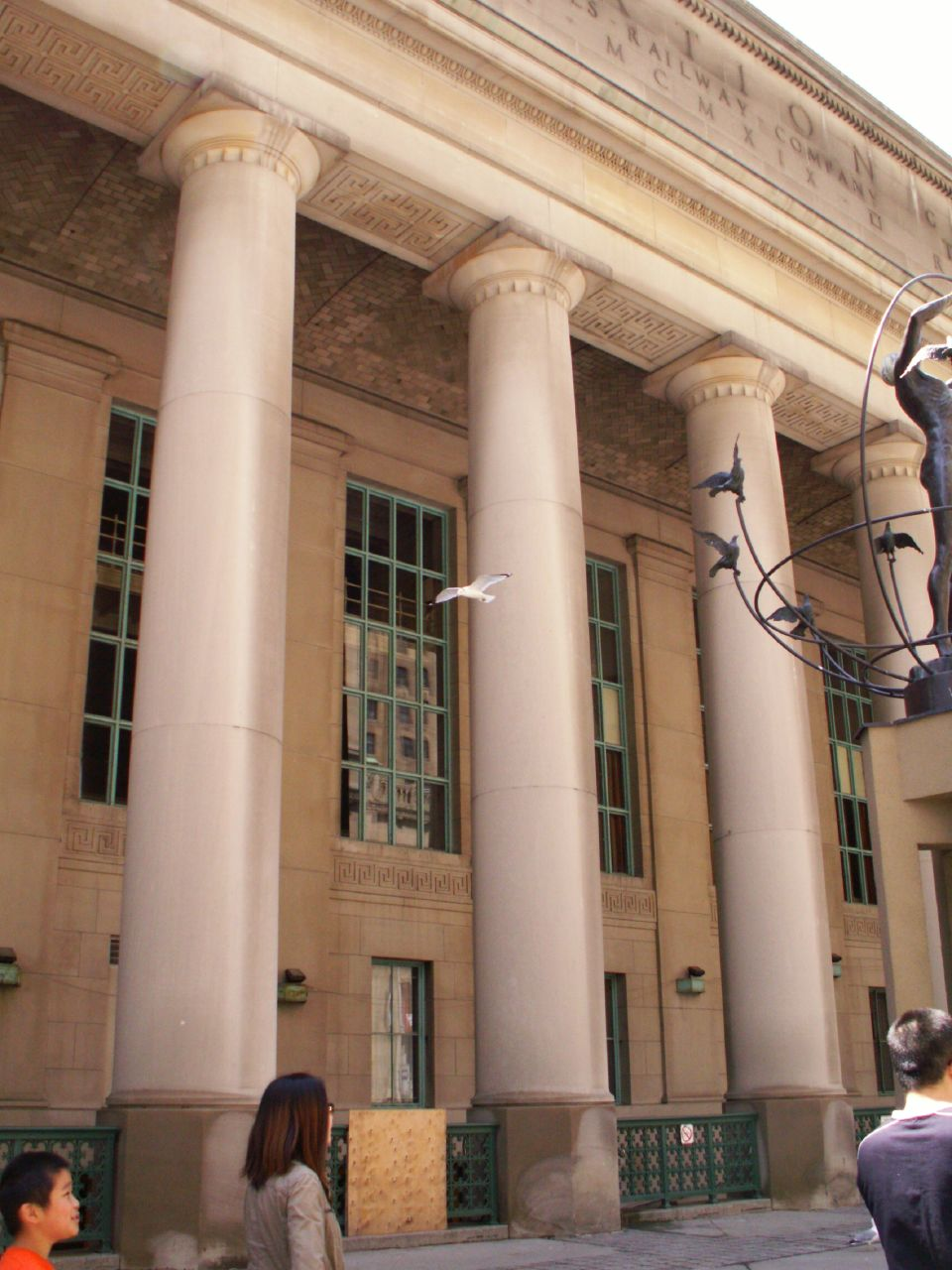 A seagull visiting Union Station. Toronto, Canada.